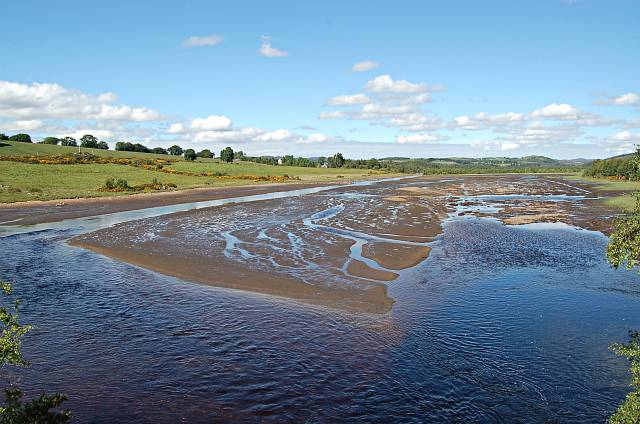 Loch Mhor no more. Loch Farraline and Loch Garth were two separate lochs in Strath Errick until 1896 when the British Aluminium Co raised the level of the larger Loch Garth just sufficiently to merge the two lochs into one much larger loch which they rather imaginatively named Loch Mhor. BACo used a series of tunnels and pipes to bring the water down to Foyers on Loch Ness. This gave them a workable head of water of around 180mts, enough to run a conventional hydro electric scheme. The electricity generated was used to power the smelter and was the first large scale use of Hydro electric in Britain. The smelter at Foyers closed in the late 1960s and the North of Scotland Hydro Electric Board took over the scheme. They uprated it to a Pumped Storage Scheme to produce power for the National Grid. They also increased the water catchment area by diverting another river, the Fechlin, into the loch. Although Foyers can be run as a conventional hydro power station its real value is as an emergency boost to the national grid during peak demand times. It is also an emergency standby which can be used to provide power for a short time if a major power station goes of line without warning. Like Cruachan and Dinorwig the power station at Foyers can go from zero to full power in less than 120 seconds. The water released can then be pumped back up during the night when demand for electricity is low or the loch can just be allowed to refill naturally, probably a bit of both. When the water is released then briefly Loch Mhor once more becomes two lochs again and this area that was once grazing land between the two lochs becomes exposed mudflats with a river flowing through.